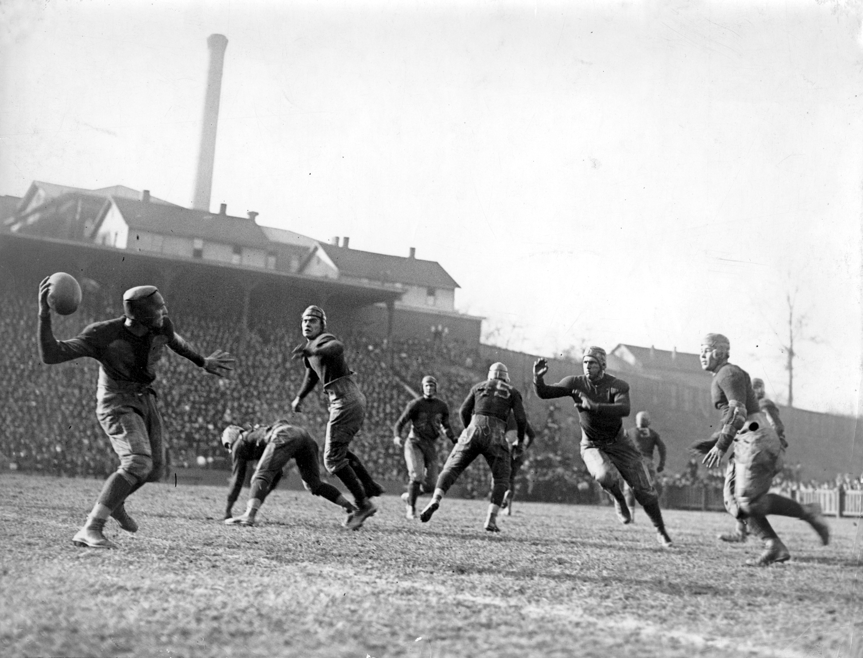 Forward pass in a football game. This game against Auburn was played on Thanksgiving Day. Georgia Tech won 14-0. It is possibly Jack McDonough who is throwing the football. Other players of note on the 1921 team were Red Barron and Judy Harlan.